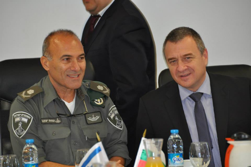 Bulgarian delegation headed by Deputy Prime Minister and Minister of the Interior of Bulgaria, Tsvetlin Yovchev, visiting Israel Border Police, November 2013.